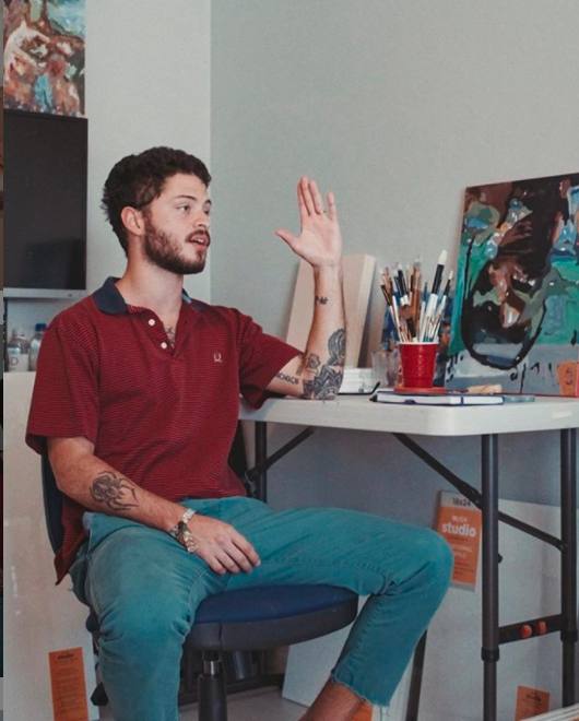 This is an Image of Caymanian artist John Reno Jackson, from an interview that I did with him last year.